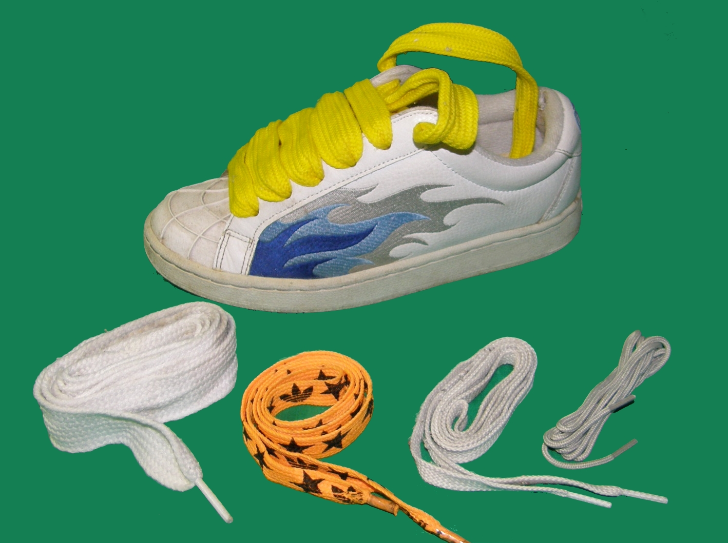 Fat laces